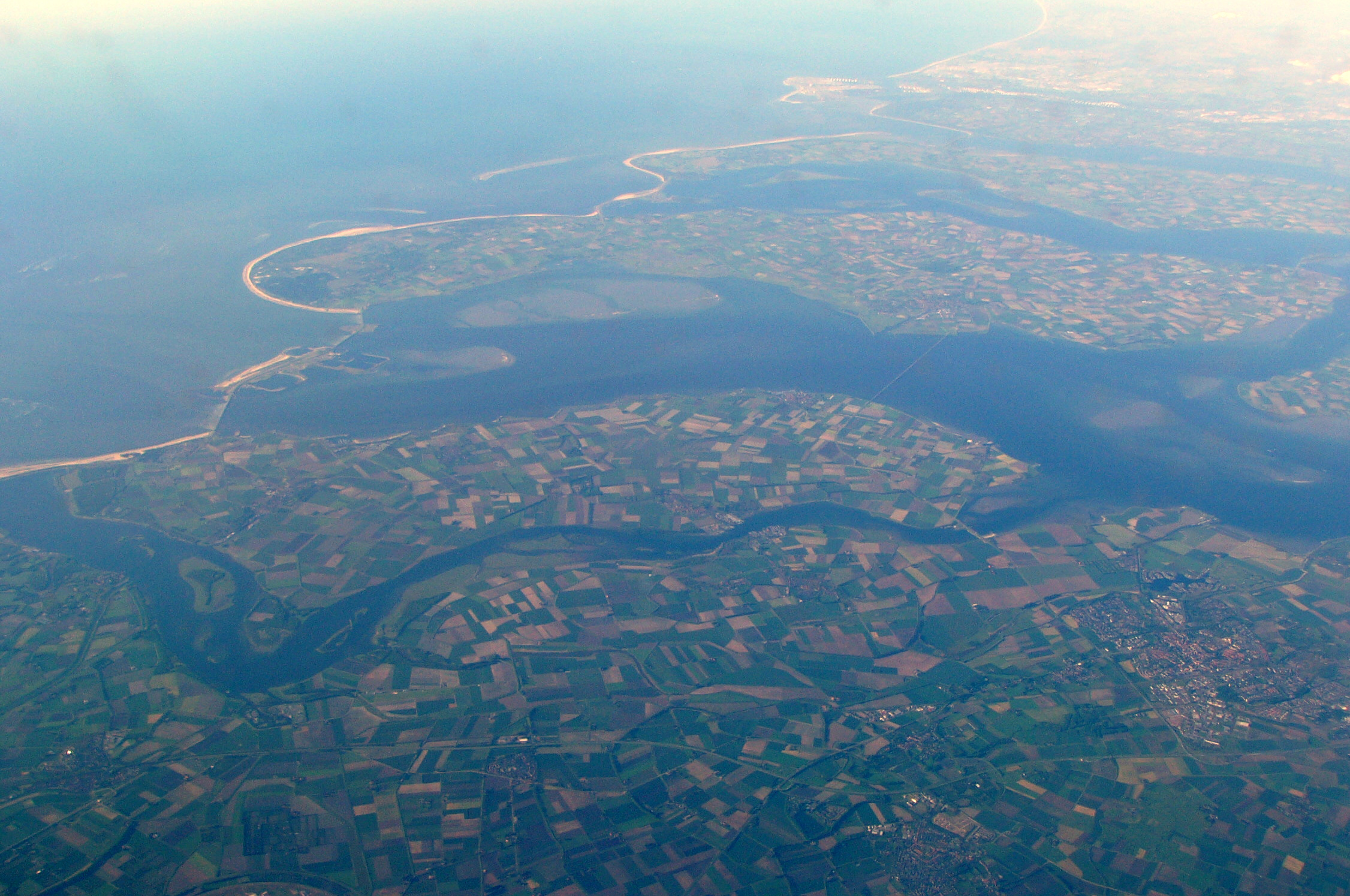 Photo of Netherlands from the plane. up: The former island of Schouwen-Duiveland left: Oosterscheldekering. in the center: The Oosterschelde estuary in the center lower part: The former island of Noord-Beveland lower: The Veerse Meer (left) and The Zandkreek strait (right) right bottom: Goes city